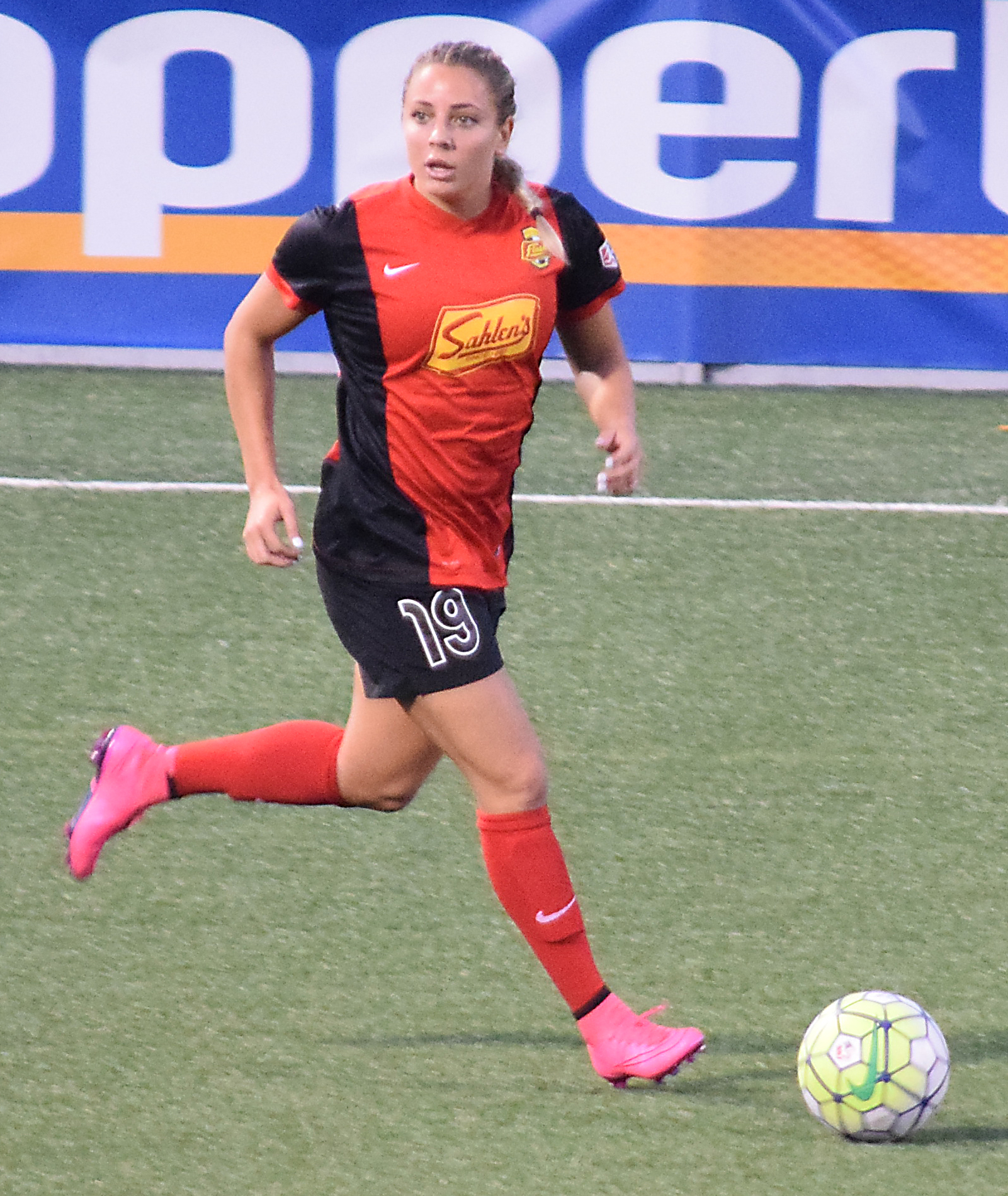 Leon with the Western New York Flash during a match against the Orlando Pride on June 11, 2016 in Rochester, New York